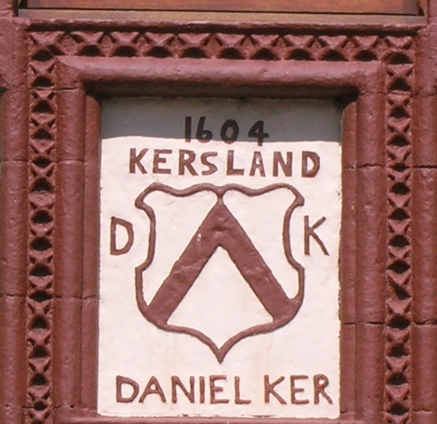 Date Stone and Coat of Arms at Kersland House, Dalry, North Ayrshire, Scotland